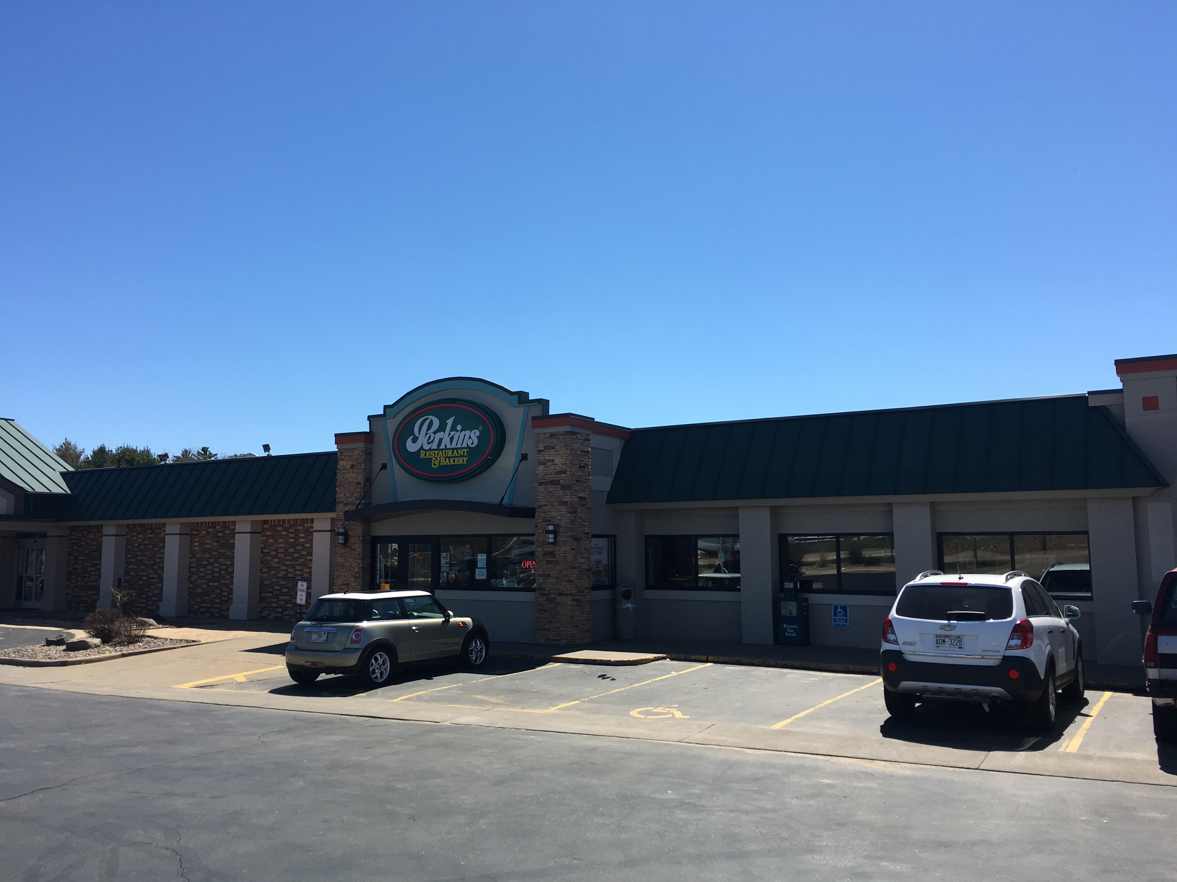 A Perkins location